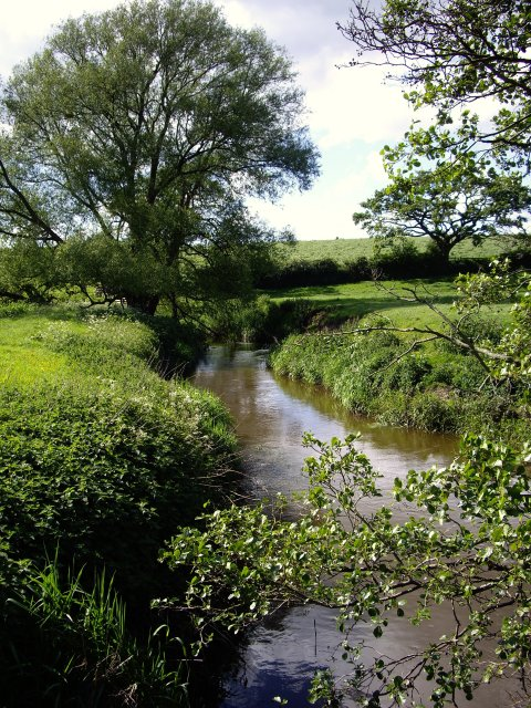 River Weaver running alongside South Cheshire Way